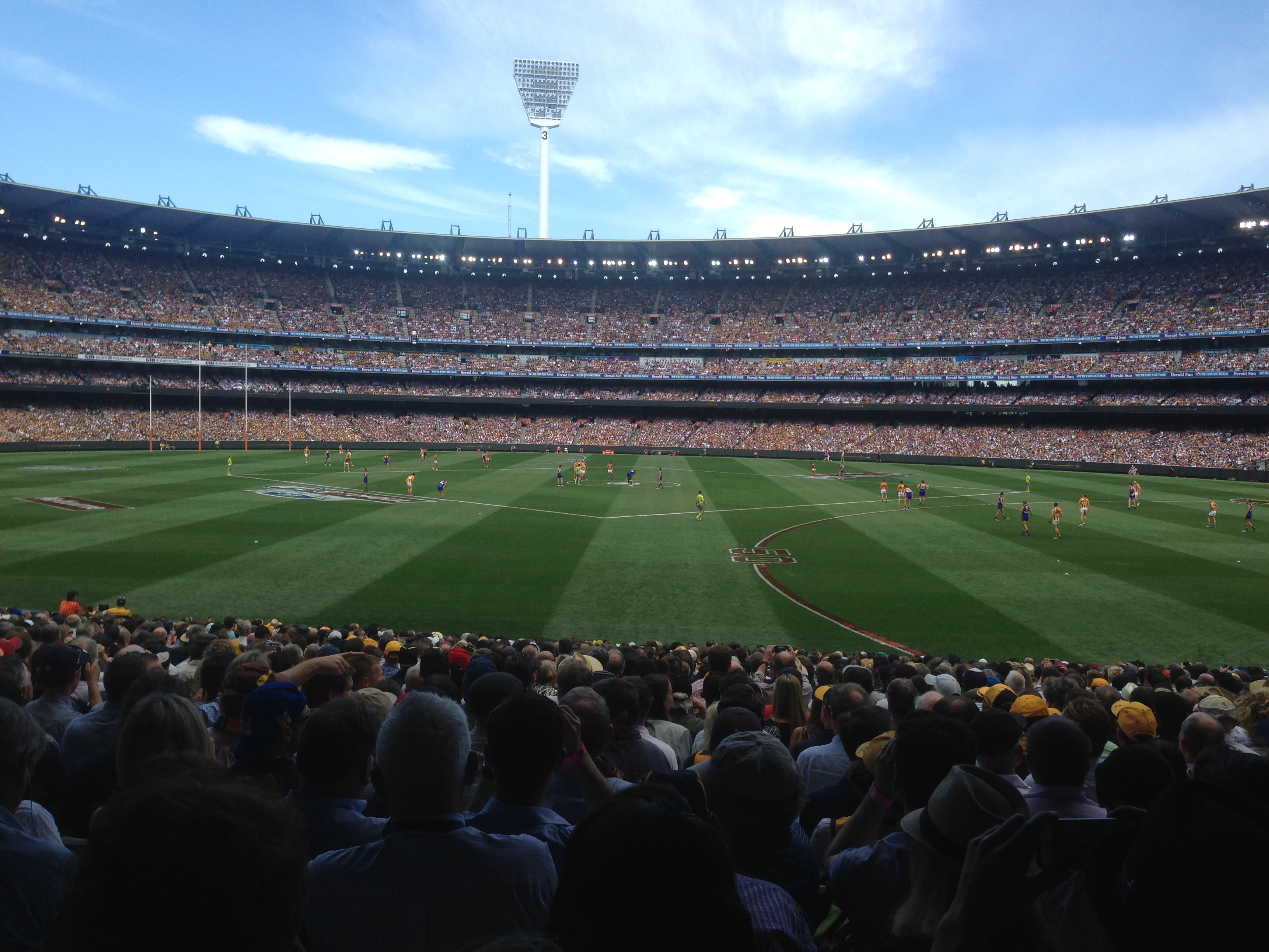 Moments before the opening bounce (beginning of the game) for the 2015 AFL Grand Final.